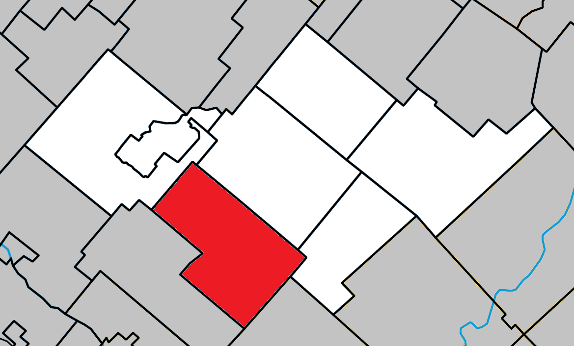 Location of Saint-Georges-de-Windsor, Quebec within Les Sources Regional County Municipality.